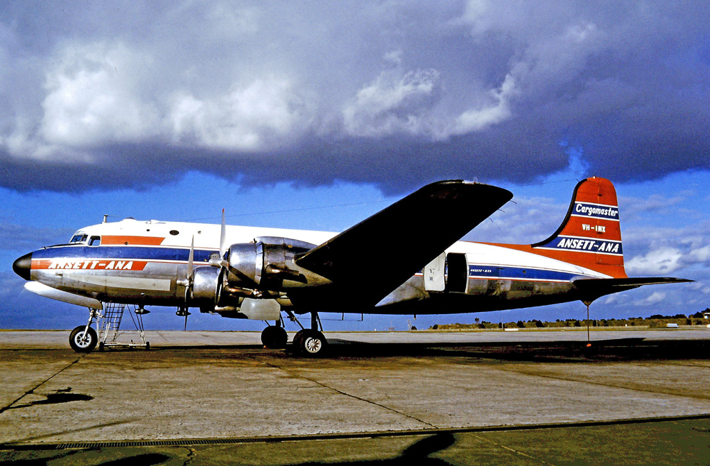 Douglas C-54B (DC-4) Skymaster of Ansett-ANA at Melbourne Essendon airport in 1970